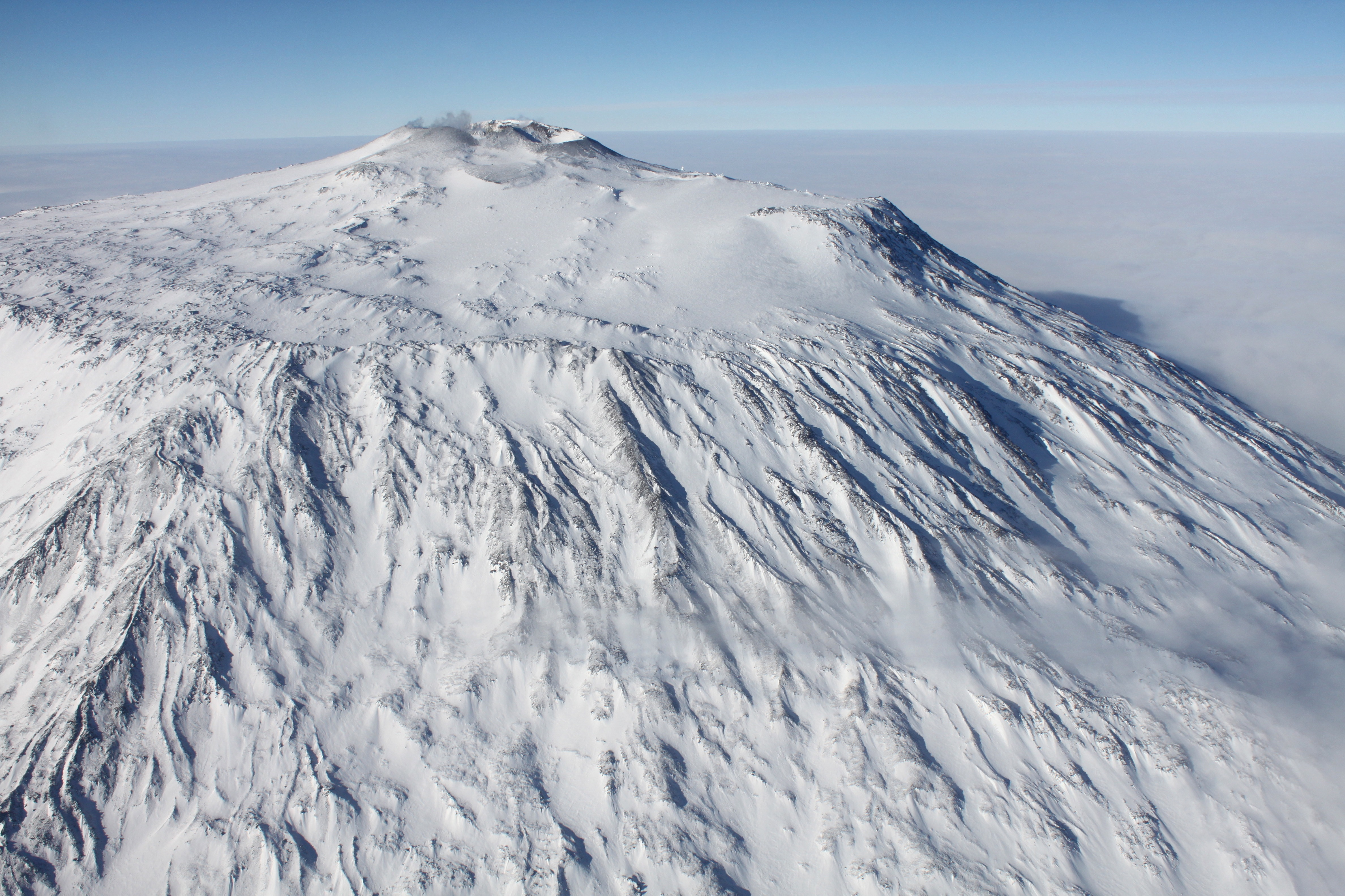 Aerial photo of Mount Erebus volcano in Antarctica.